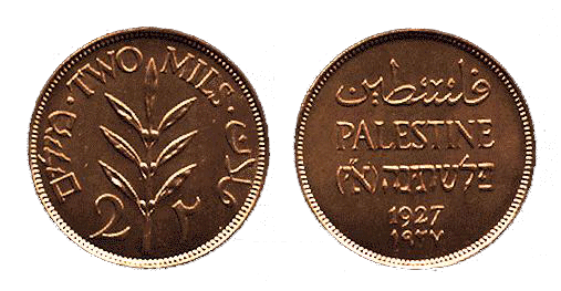 A 2 mil piece (=0.002 Palestine pound) issued by the Palestine Currency Board affiliated with the UK government for use in the British Mandate of Palestine and the Emirate of Transjordan.